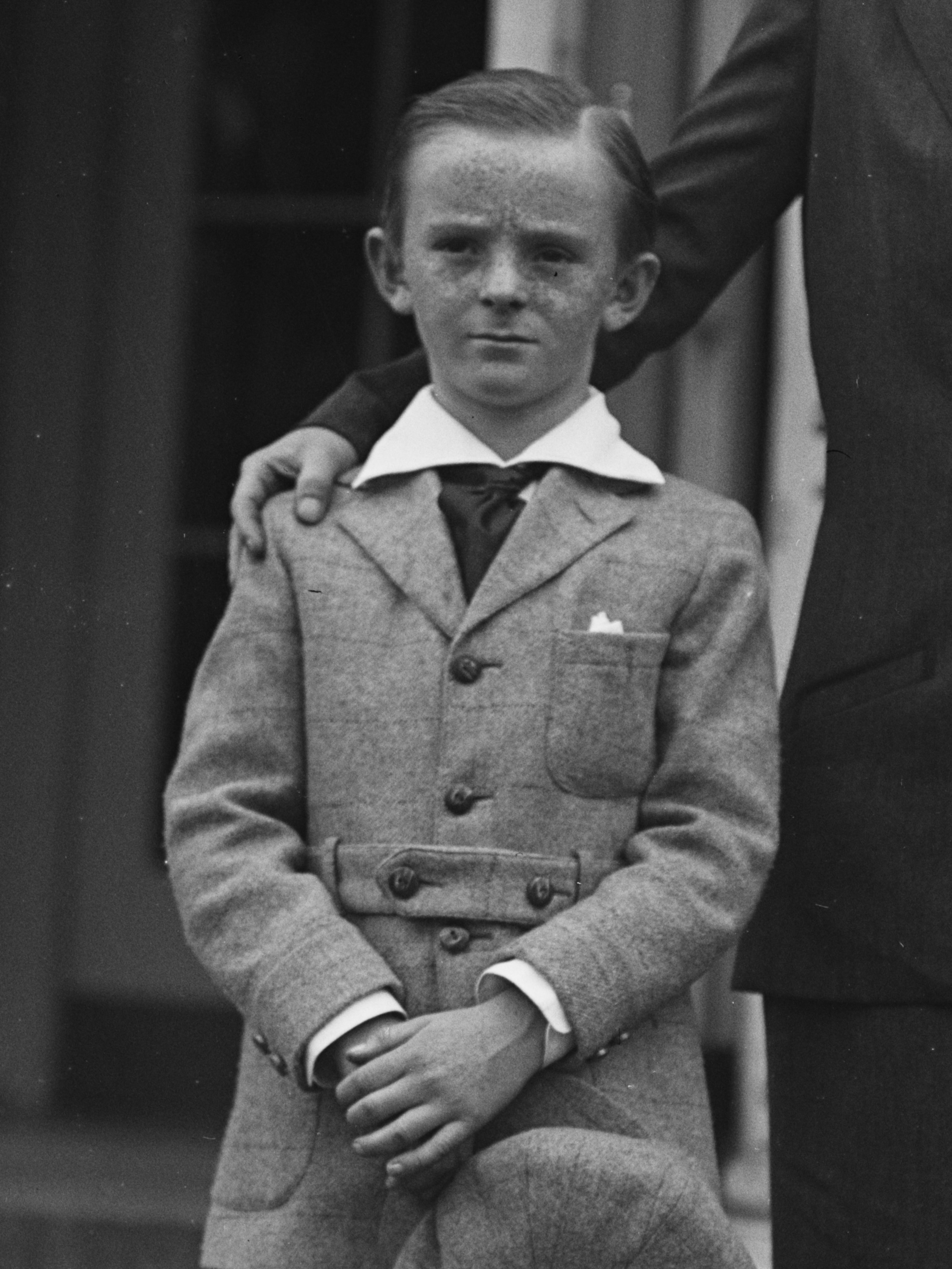 Wallace Reid, Jr. at the White House with his mother, Dorothy Davenport